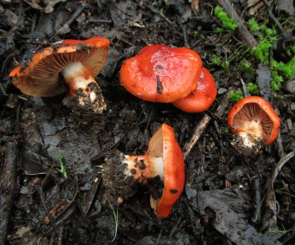 Cortinarius erythraeus. Central Goldfields, Victoria, Australia